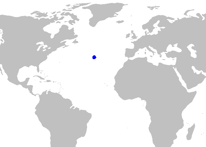 Distribution map for Scymnodalatias garricki